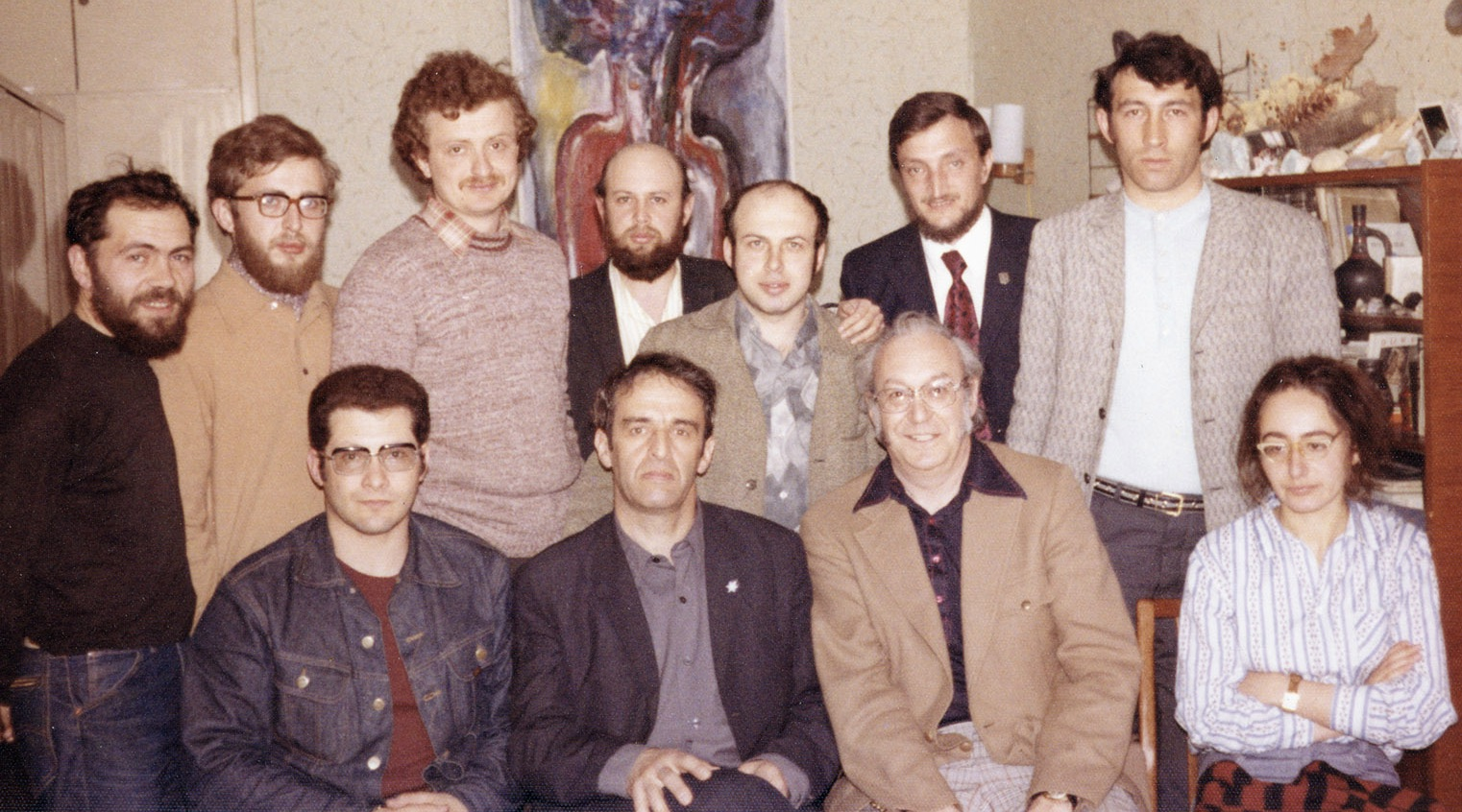 Louis Rosenblum (seated 2nd from right) with Jewish emigration activists in Moscow apartment of Alexander Luntz (seated 3rd from right) May 1974. Anatoly Scharansky is standing behind Rosenblum, 3rd from right.